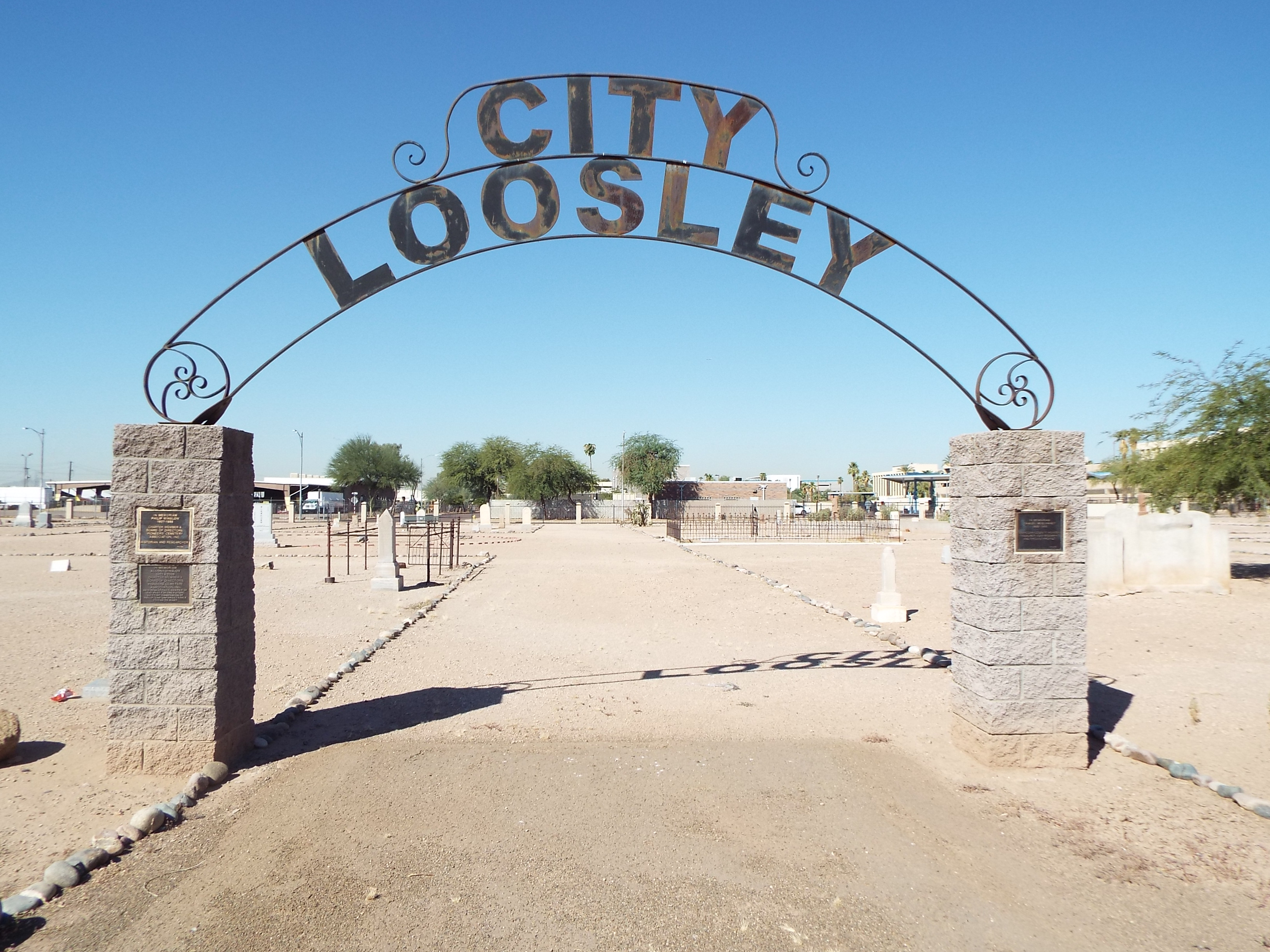 Entrance to the City/Loosley Cemetery located in the historic Pioneer and Military Memorial Park of Phoenix.